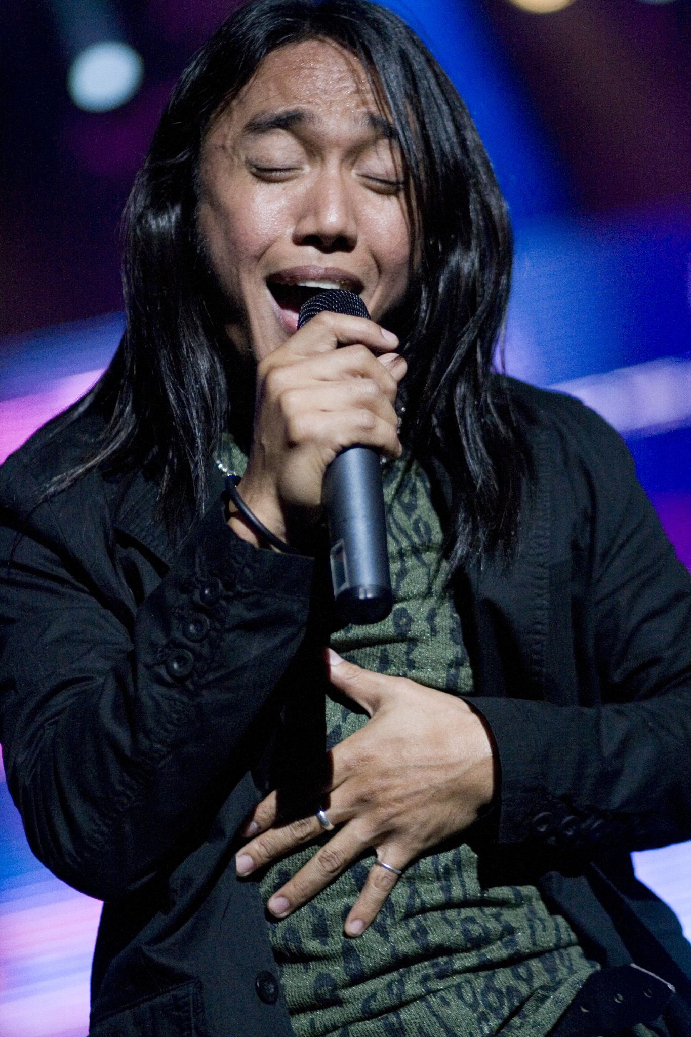 Arnel Pineda performs with Journey @ PNC Bank Arts Center, NJ, 8/21/08